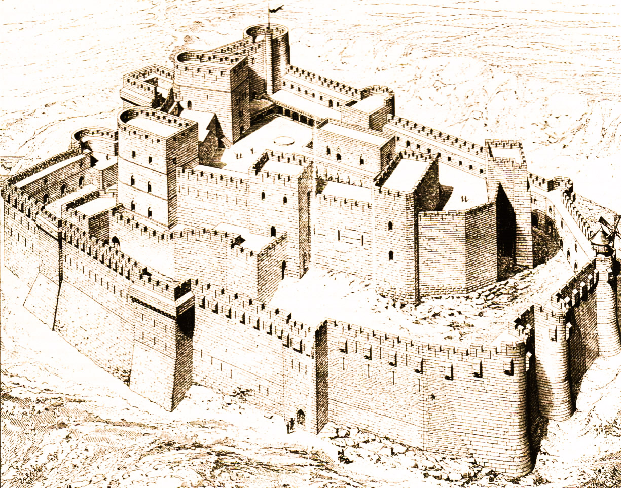 The Krak des Chevaliers as it was in the Middle-Ages.